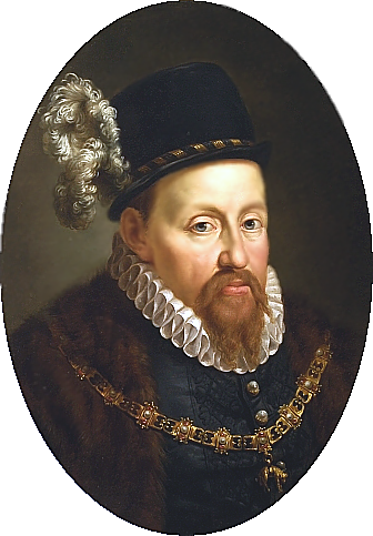 A portrait of Charles II of Styria, in a black hat with a white feather, a white ruff on his neck, and an ornate gold chain around his neck.